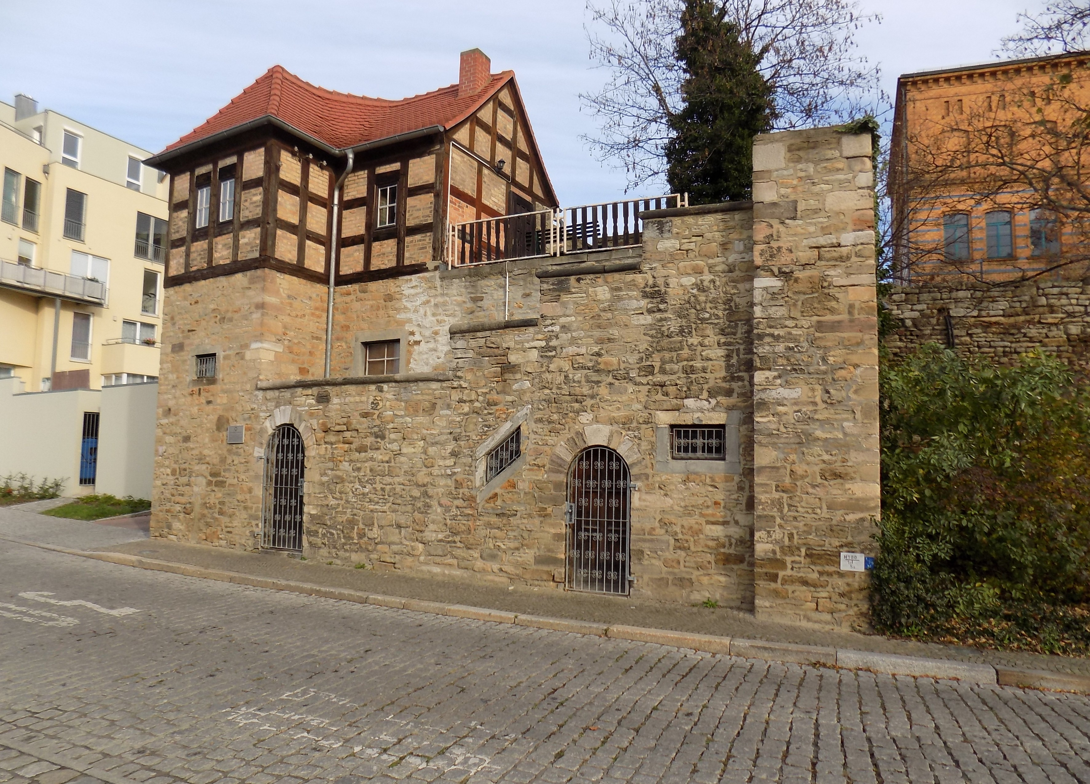 The Black Bastion in Merseburg (district: Saalekreis, Saxony-Anhalt), at the convergence of the fortifications of the town and the castle